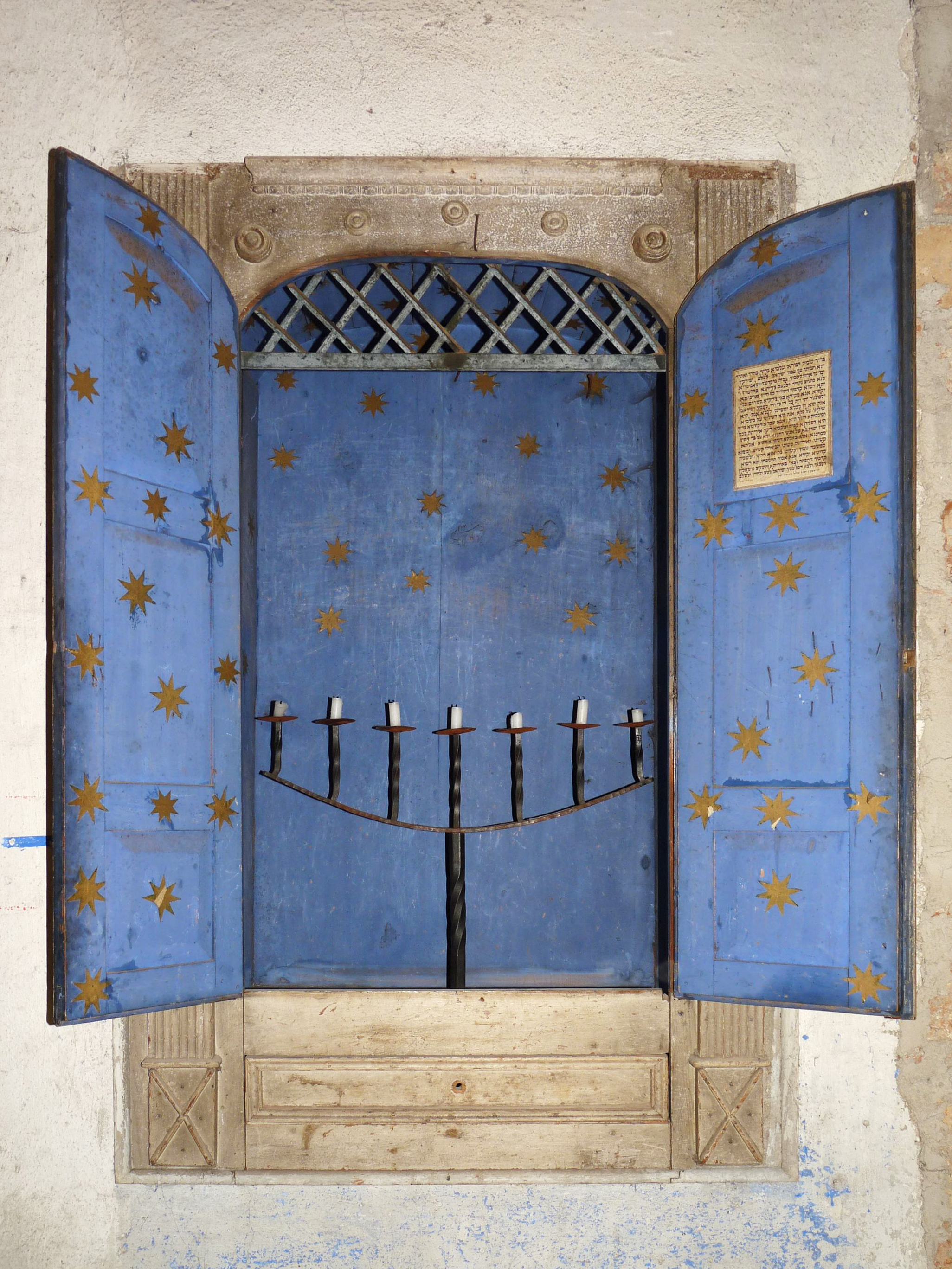 Torah ark in the winter Gospel Hall in the former synagogue in the municipality of Čkyně, Prachatice District, Czech Republic